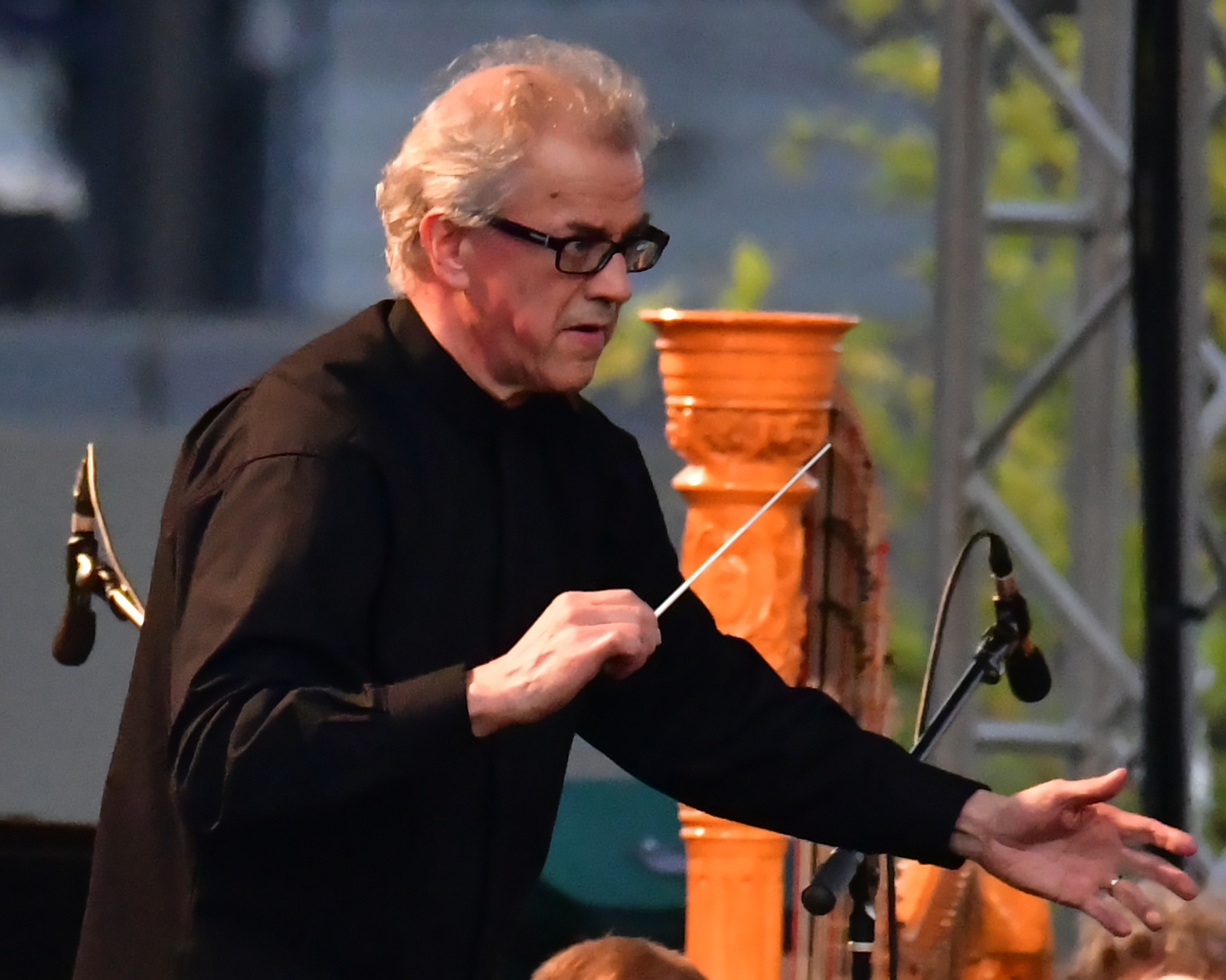 Osmo Vanska, conductor of the Minnesota Orchestra, conducts an outdoor concert in Commons Park, Minneapolis.